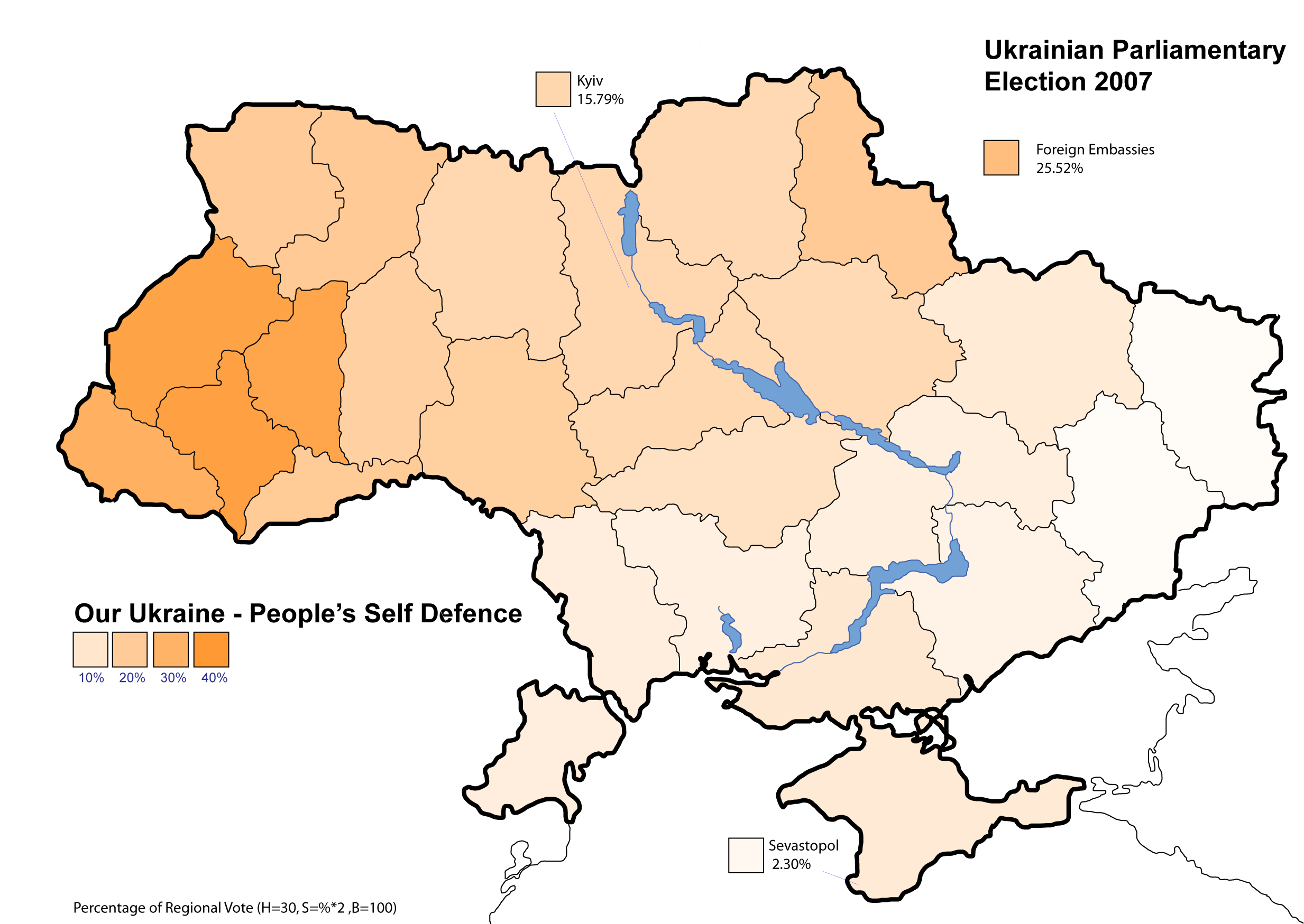 Our Ukraine People's Self-Defence results (14.15%), one of the maps showing the top six parties support - percentage per region in the 2007 Ukrainian Parliamentary Election.